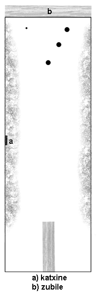 Graphic of the Zeanuriko bola jokoa